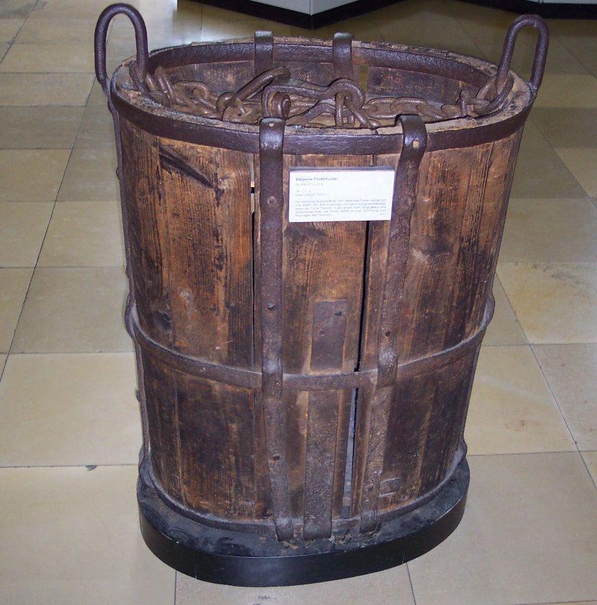 Historic hoisting bucket, maybe replica.